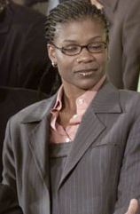 Professional basketball player Sheryl Swoopes visits the White House with her WNBA Champion Houston Comets team on May 14, 2001.